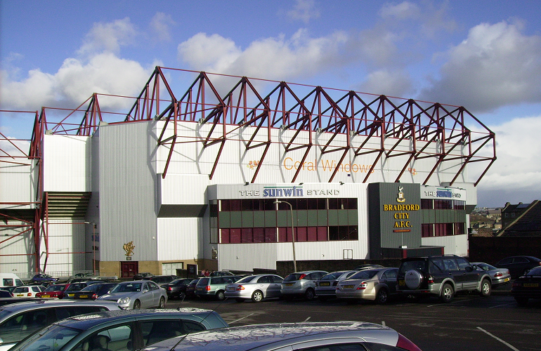 Main stand at Valley Parade stadium, Bradford